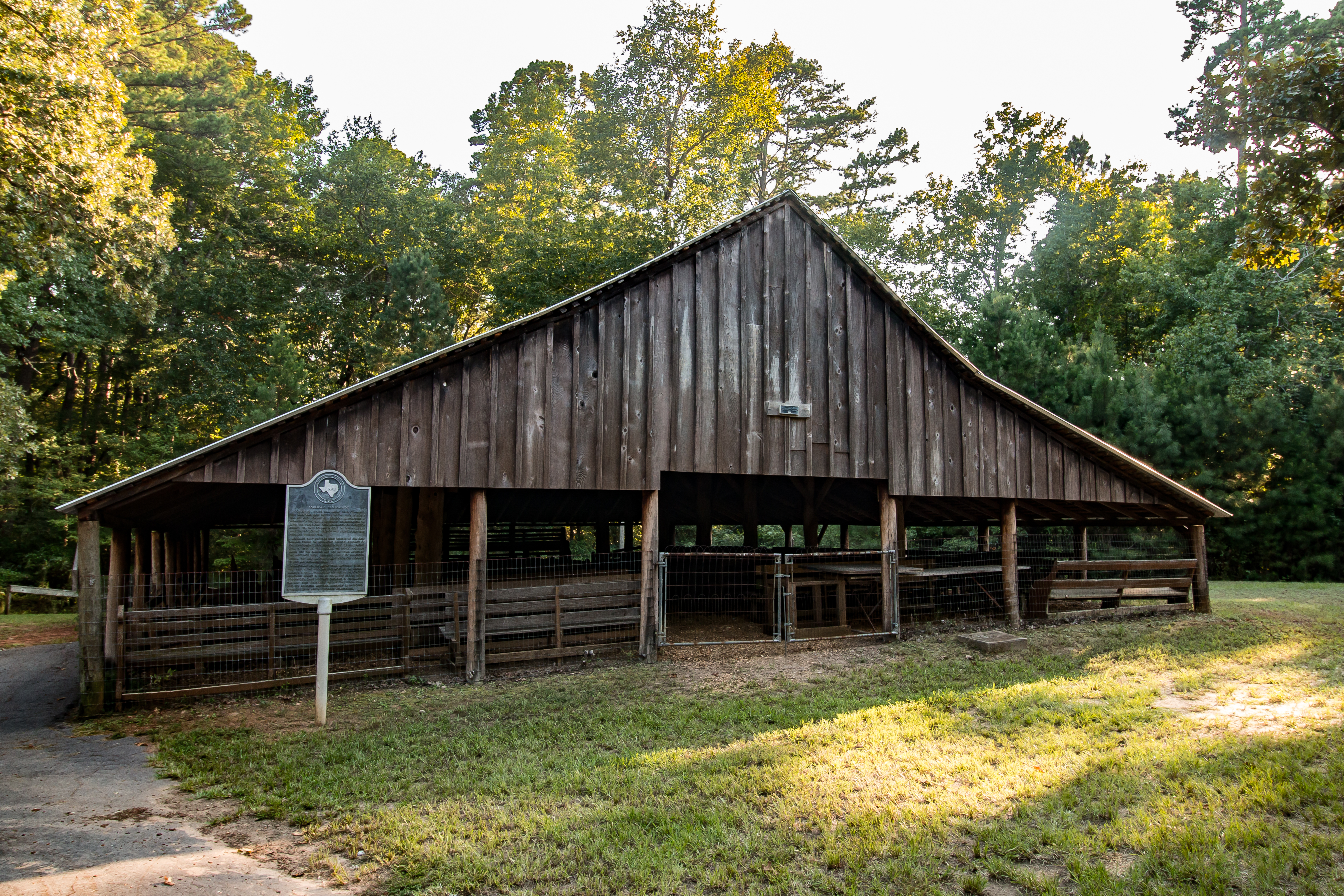 Anderson Campground in Brushy Creek, Texas